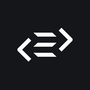 PureScript logo